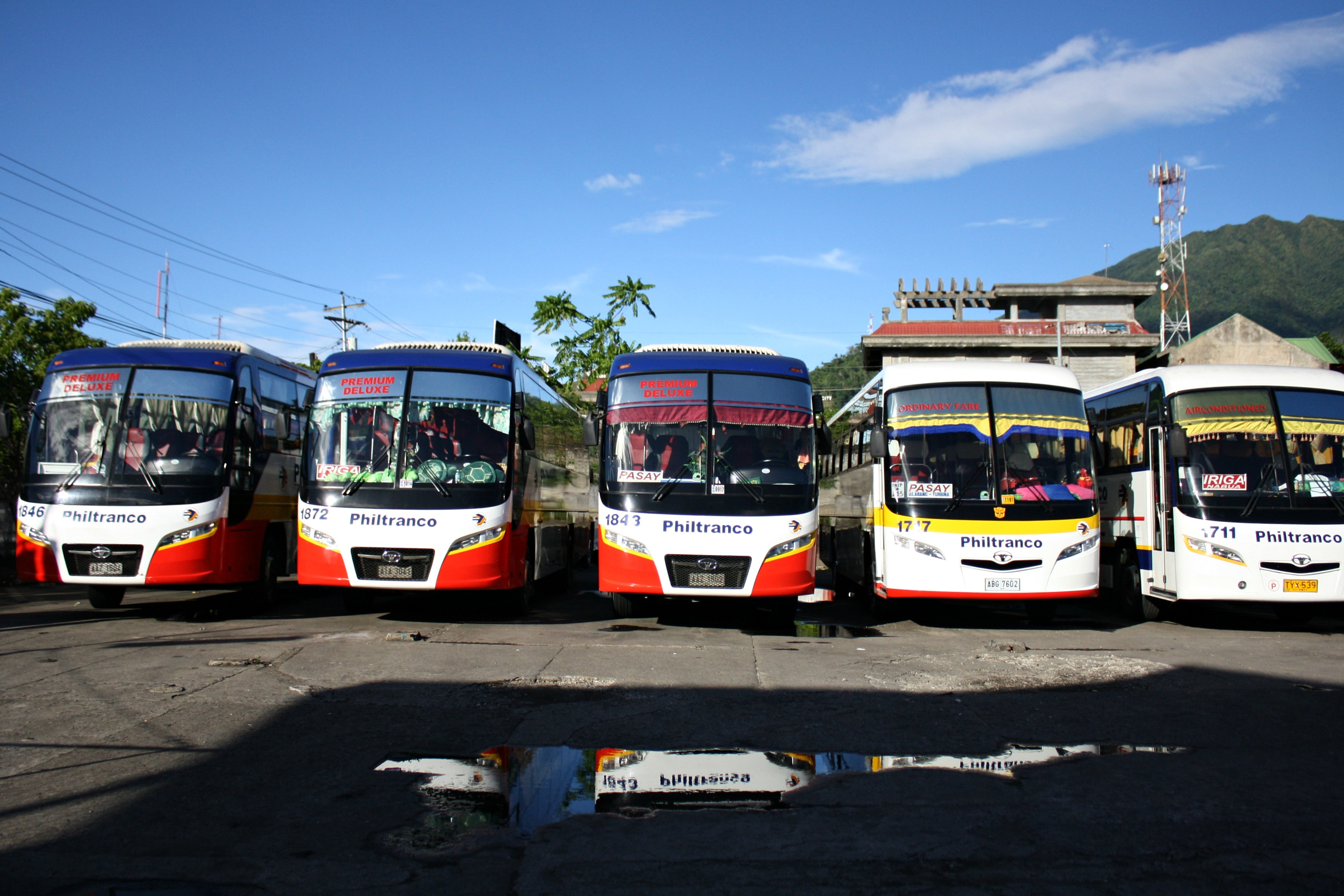 The Philtranco terminal in Iriga City. The transport company,e stablished in 1914 has embed itself in the culture and psyche of Bicolanos.